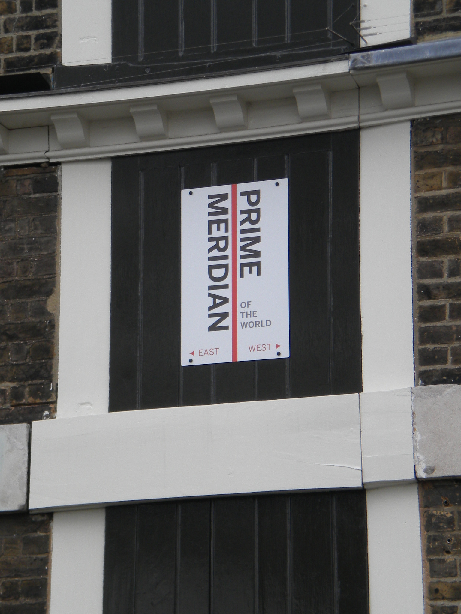 Marking of the Prime Meridian at Greenwich Royal Observatory, London